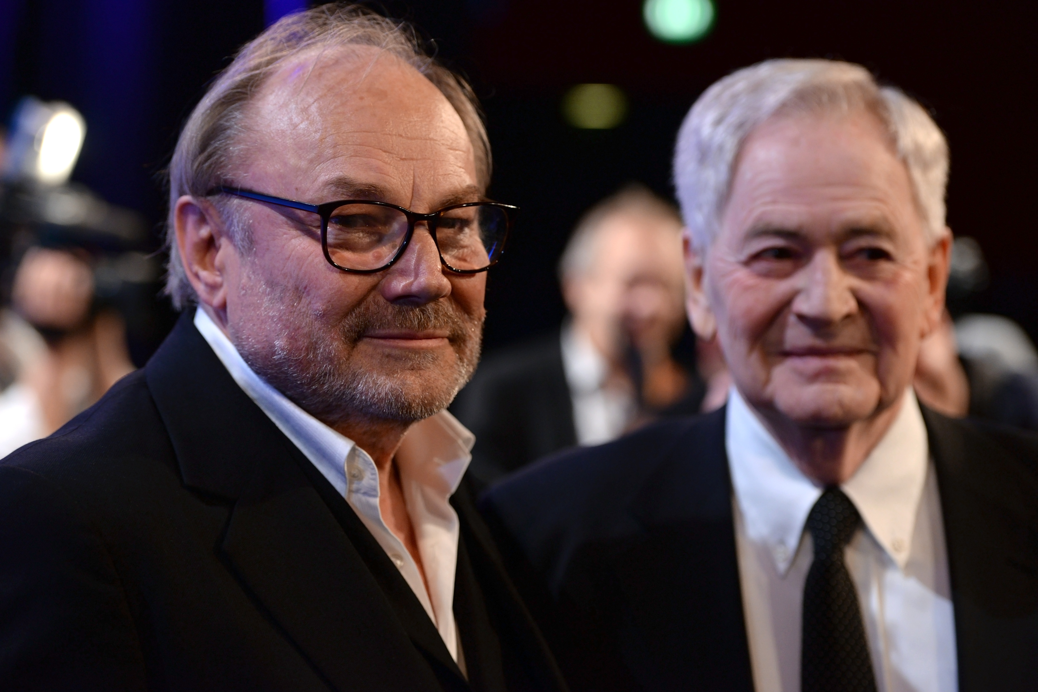 Klaus Maria Brandauer and István Szabó - Nestroy Theatre Awards 2014 at Wiener Stadthalle (Vienna, Austria).